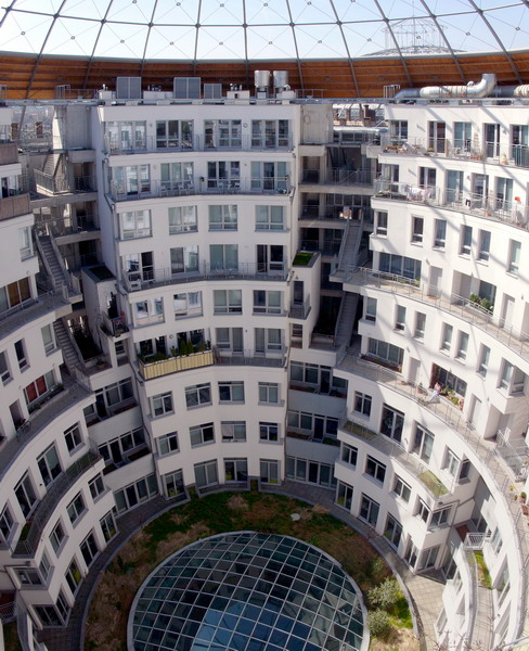 Gasometer C in Vienna, Austria